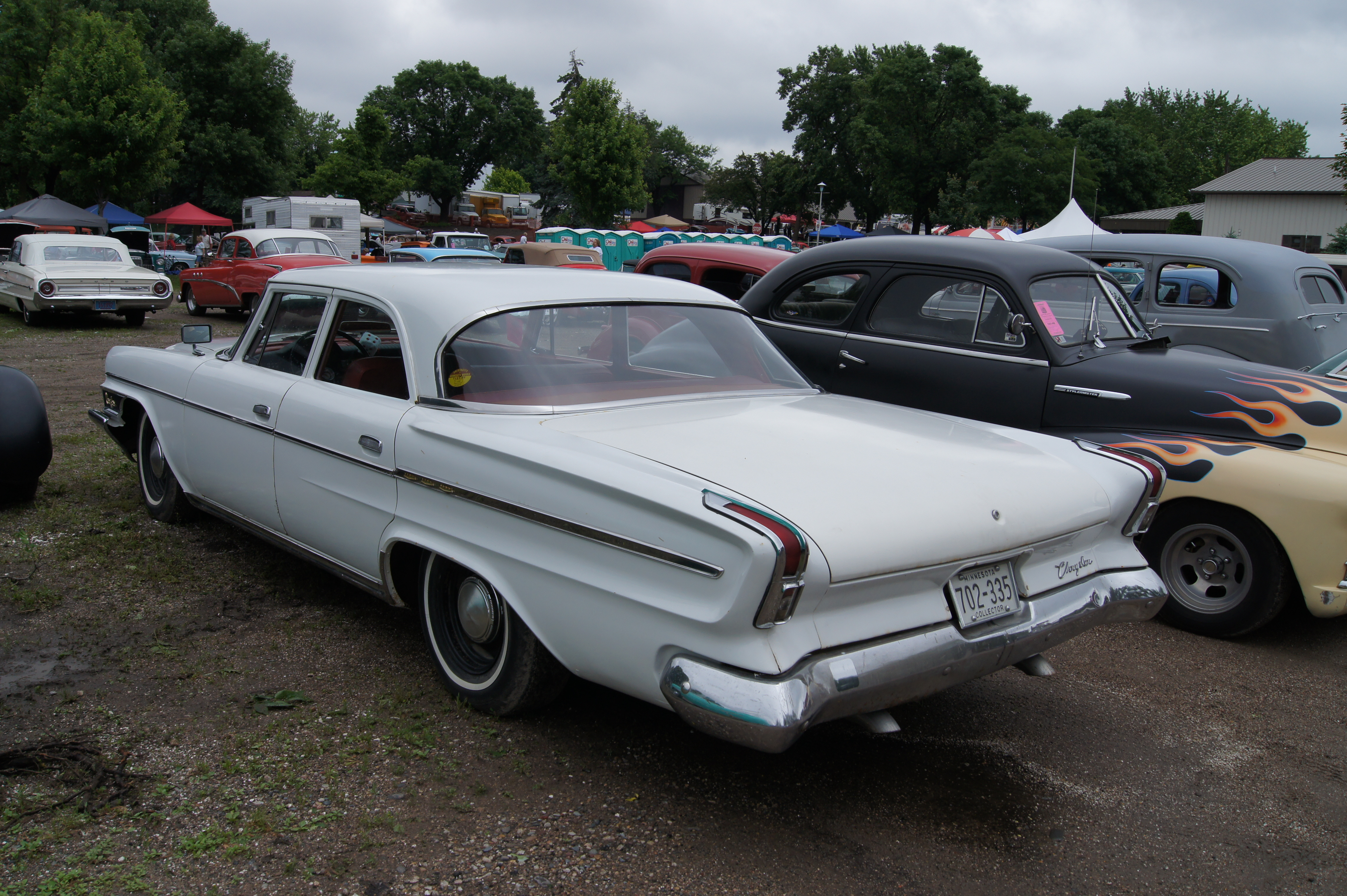 MSRA “BACK TO THE 50′s” 40th ANNIVERSARY June 21-23, 2013 State Fairgrounds St. Paul Minnesota More Car Pictures